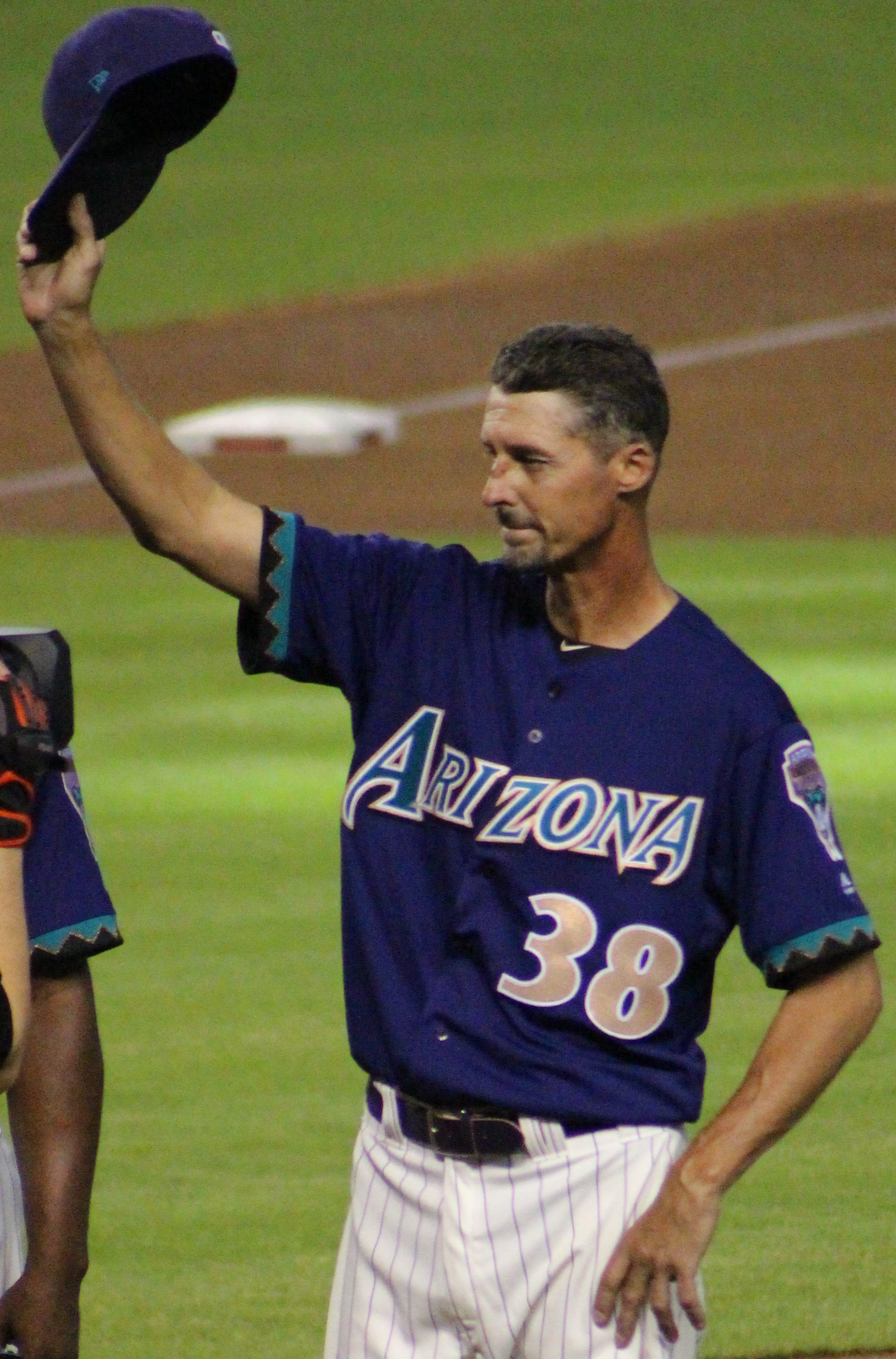 Joel Adamson raises his hat to the crowd at Chase Field before the Arizona Diamondbacks' 2017 Alumni Game